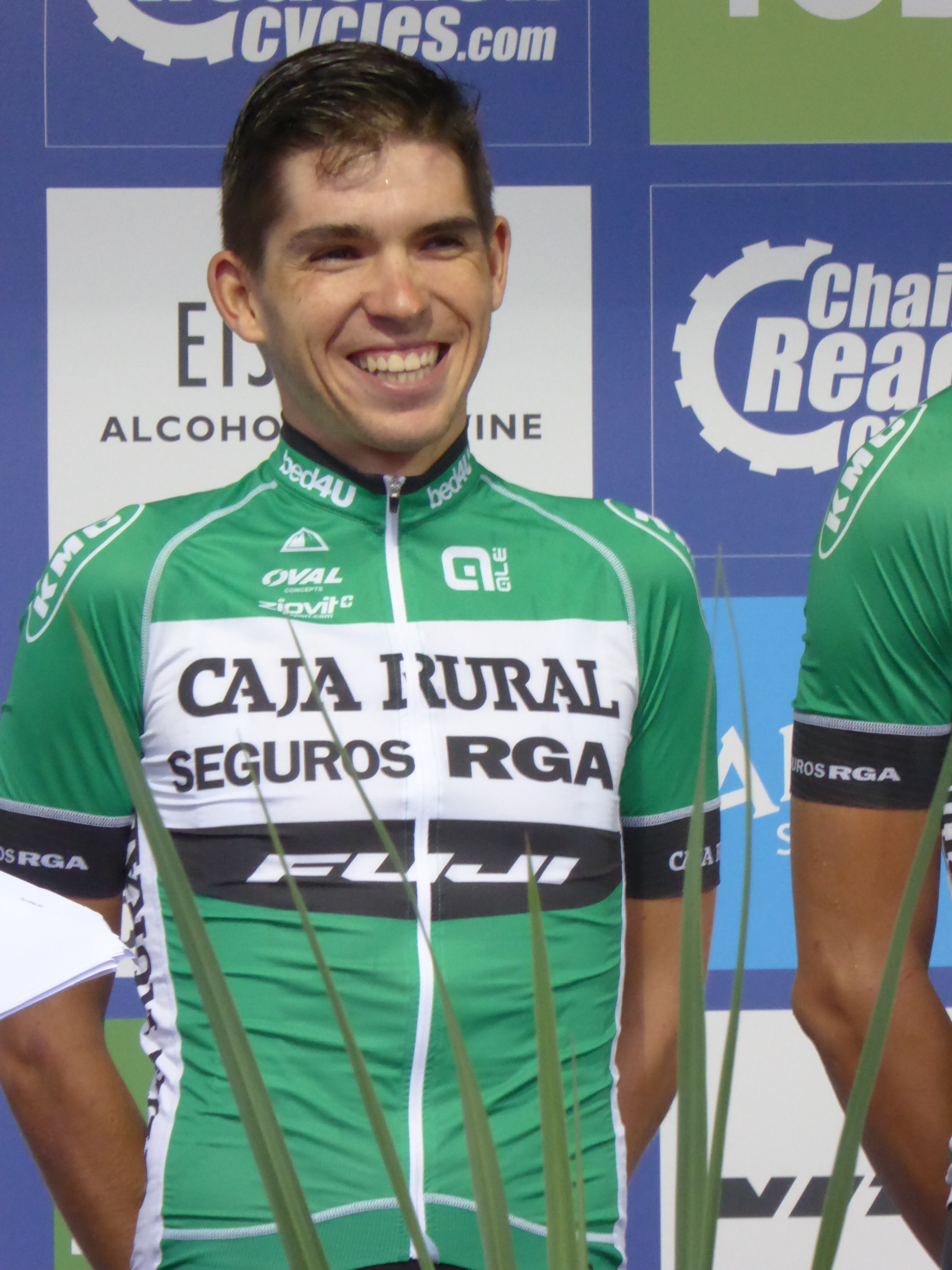 Miguel Ángel Benito (Caja Rural-Seguros RGA), pictured at the 2016 Tour of Britain team presentation in Glasgow on 3 September 2016.